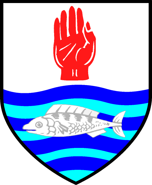 Genealogical site